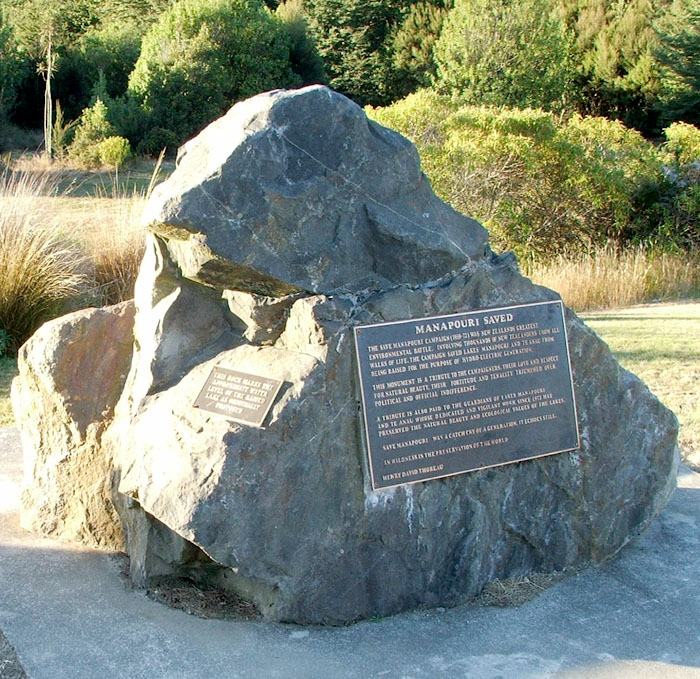 Monument to the Save Manapouri Campaign in Manapouri, New Zealand. Photographed by James Dignan (User:Grutness) in March 2008.